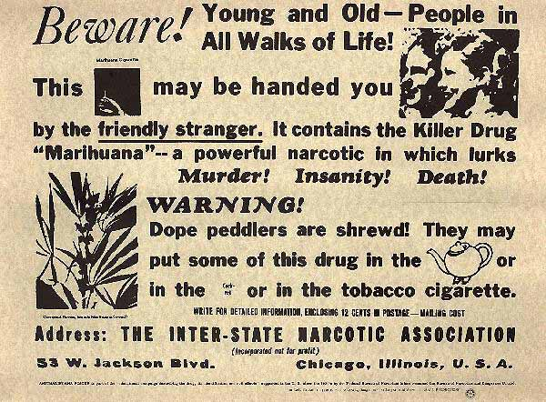 An advertisement distributed by the Federal Bureau of Narcotics in 1935